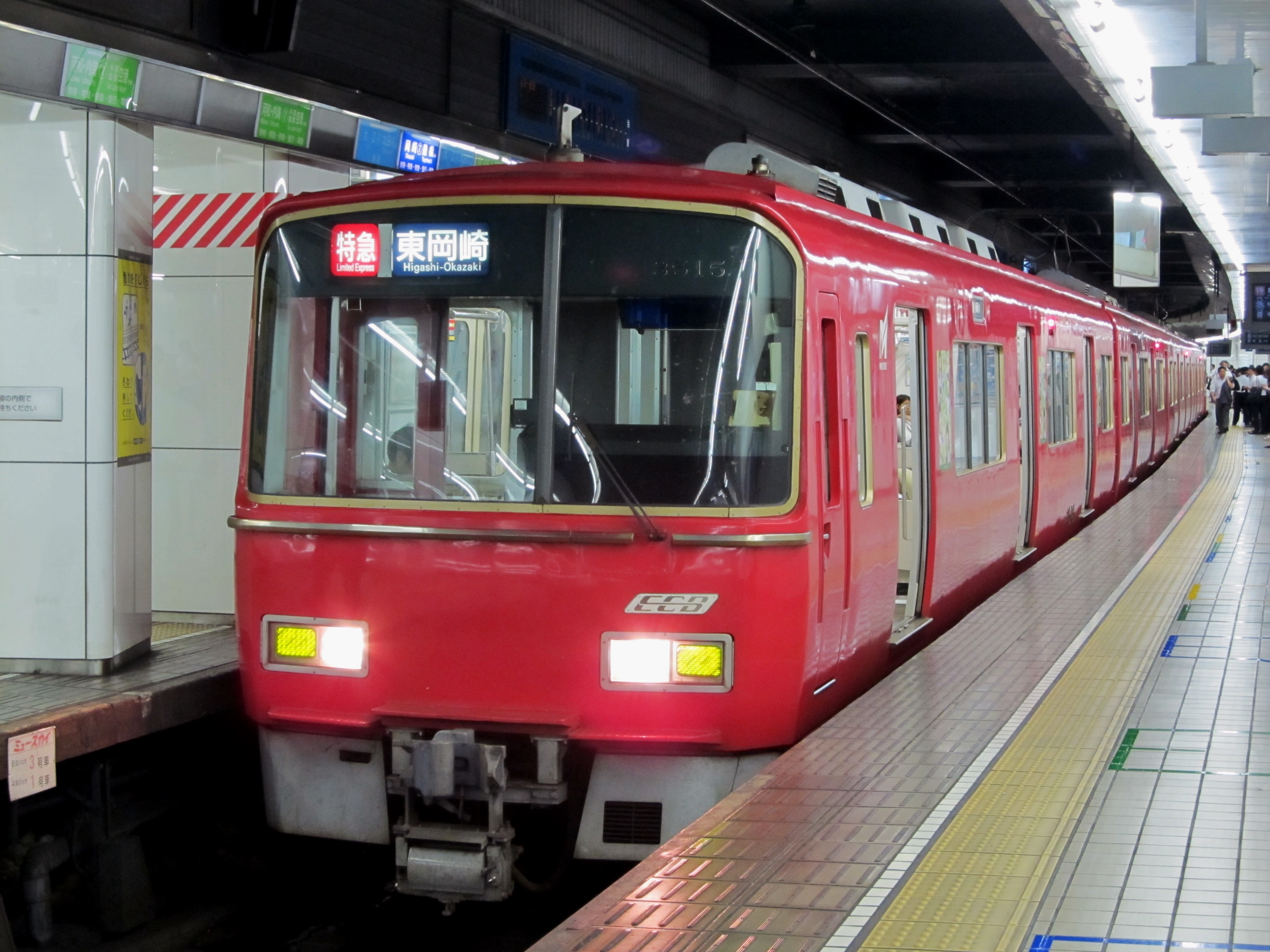 Meitetsu 3500 series. Limited Express bound for Higashi Okazaki.